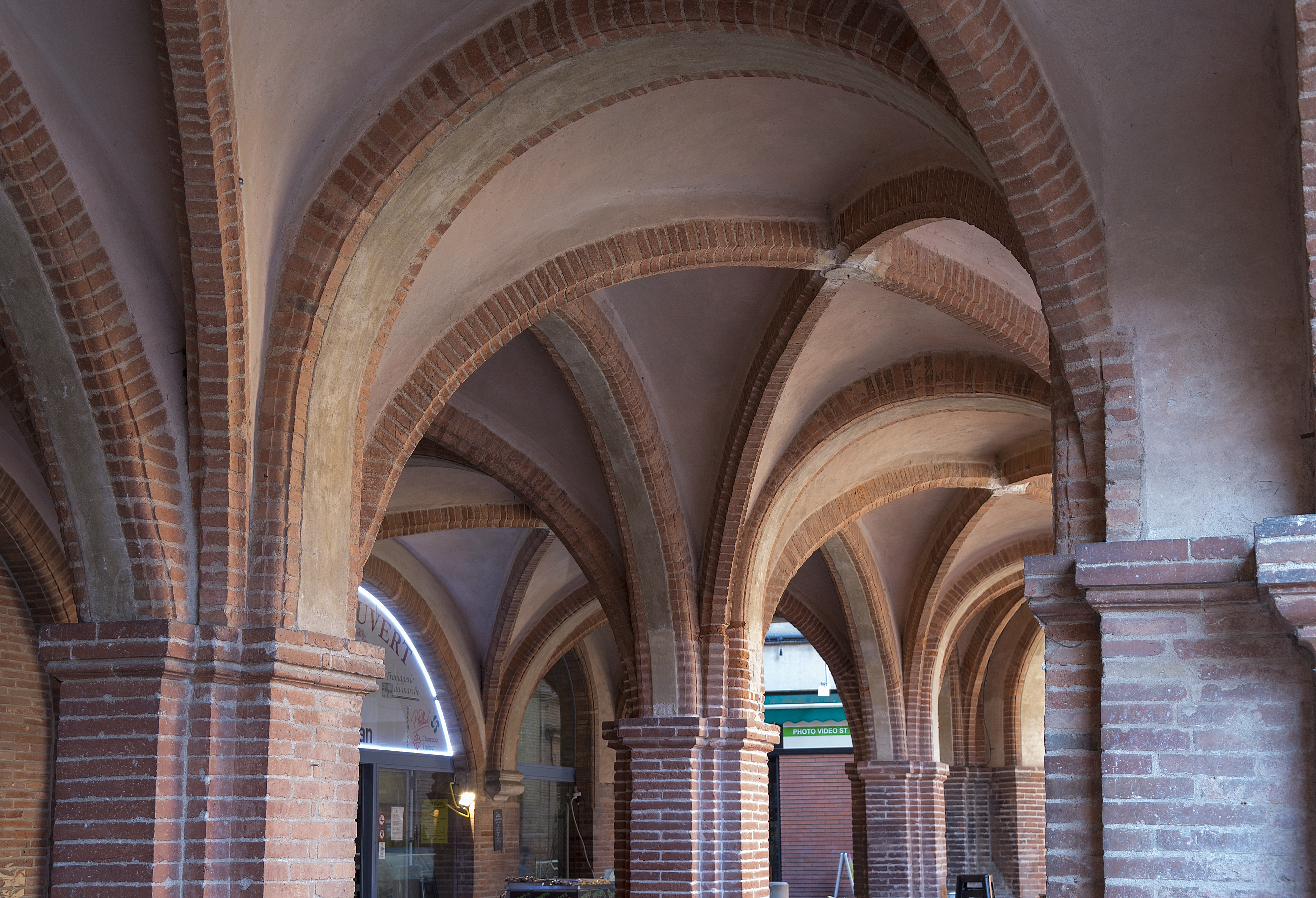 Les arcades de la Place Nationale de Montauban, Tarn et Garonne, France